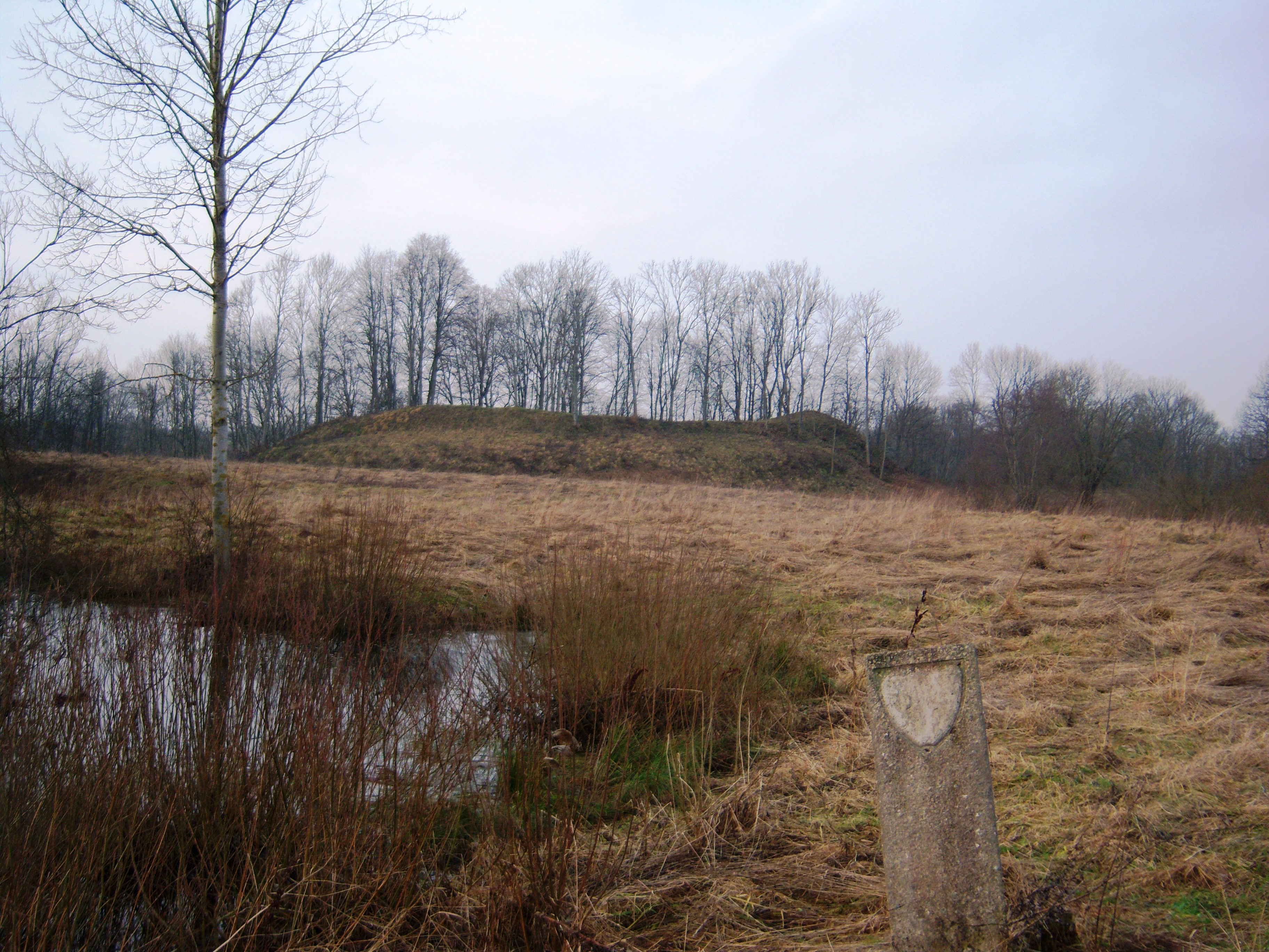 Pabalčiai Hillfort, Raseiniai District, Lithuania